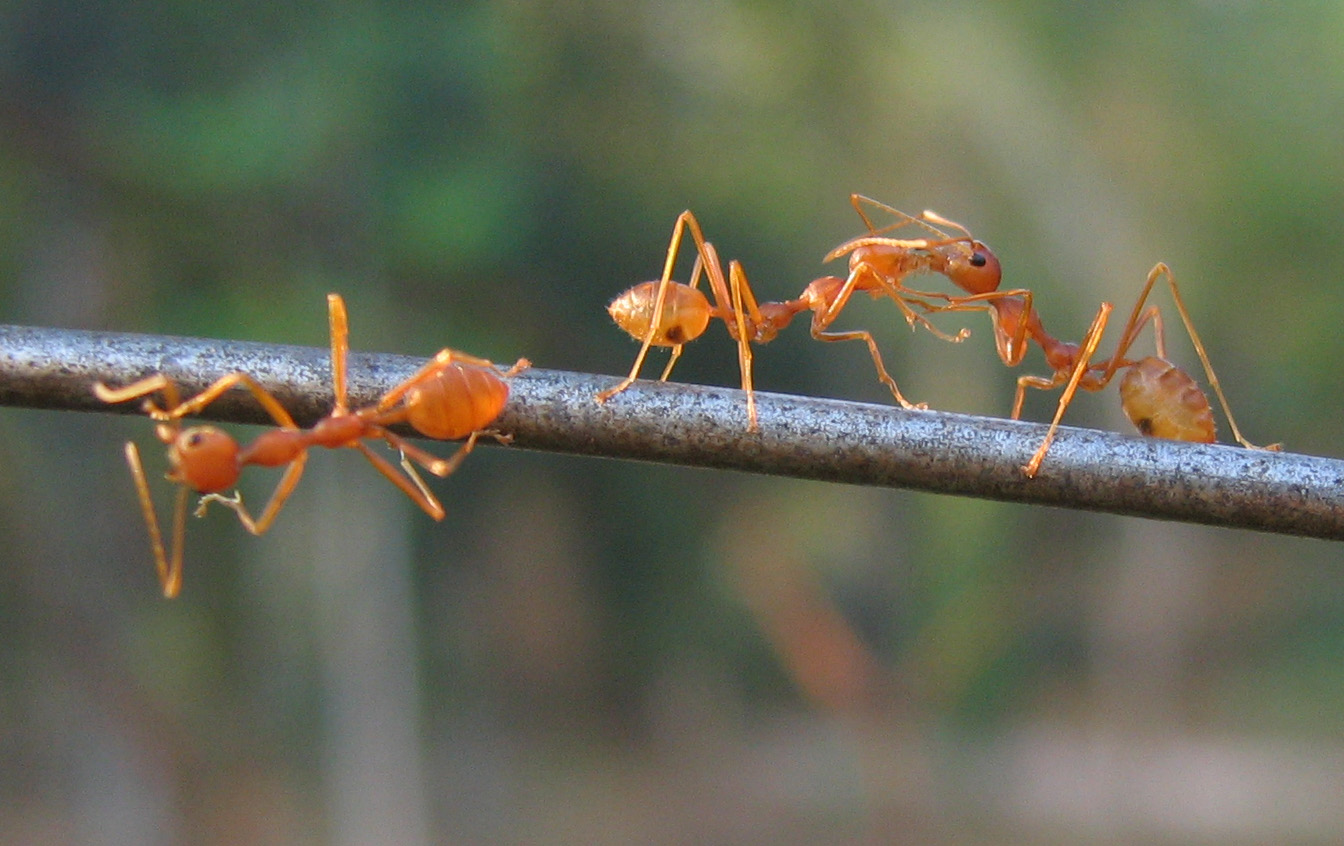 Ants playing